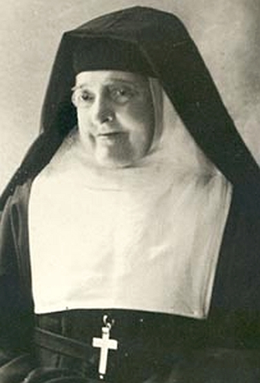 Sister Mary of the Sacred Heart. Constance Bernaud 1825-1903. Guard of Honor of the Sacred Heart of Jesus' founder.